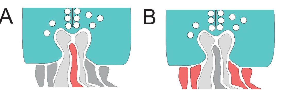 Invaginating ON-CBC contact (A). Basal/flat OFF-CBC contact (B). Schematic drawing